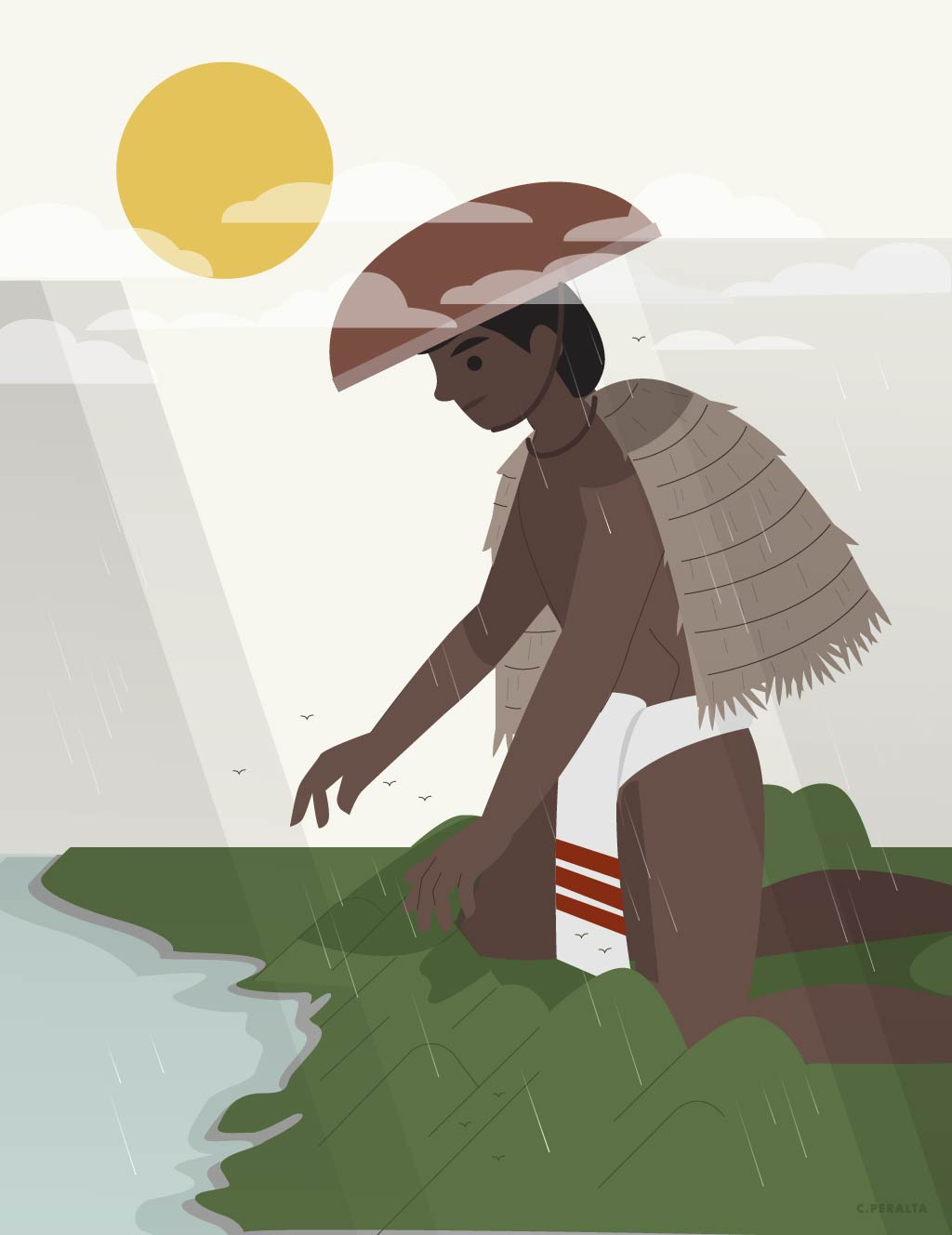 Angalo creating the Cordillera Mountains and the Ilocos Region